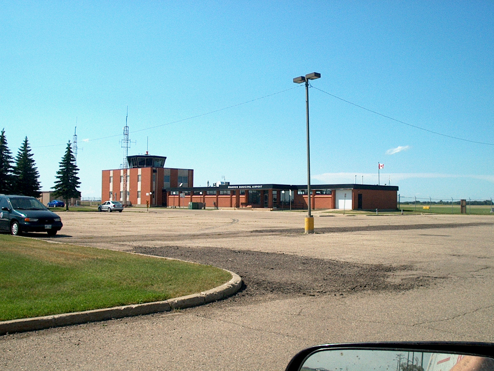 Brandon Airport